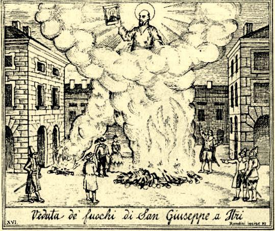 Ancient engraving showing the traditional Saint Joseph fires feast held in Itri (province of Latina, Italy)